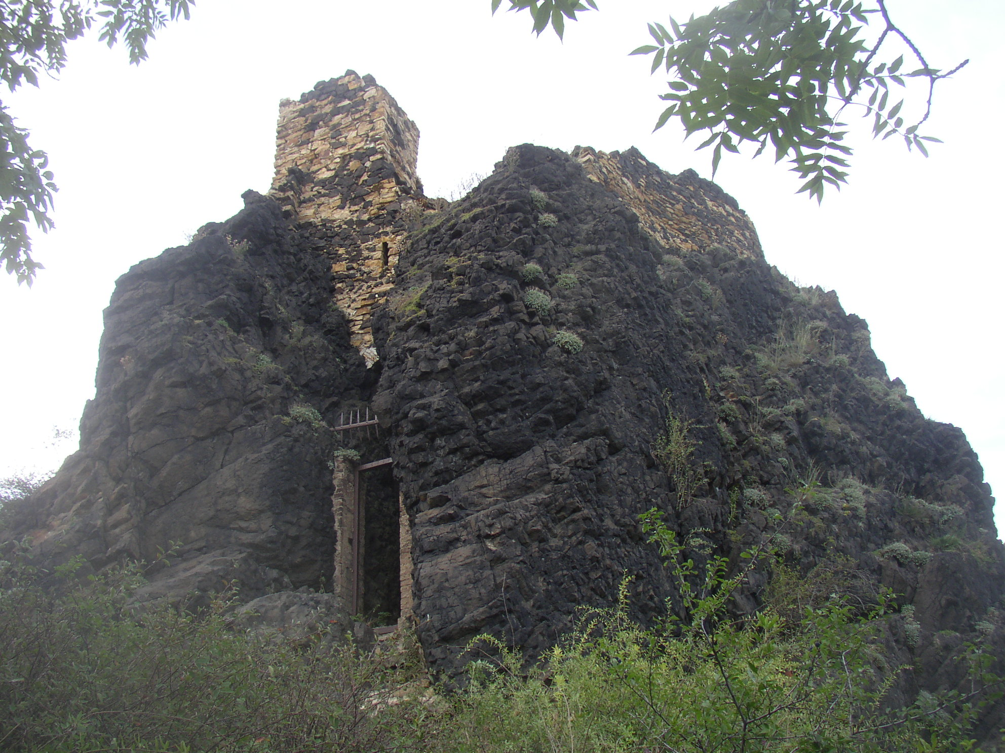 Ruins of Kamýk Castle in village of Kamýk near Litoměřice, Czech Republic.